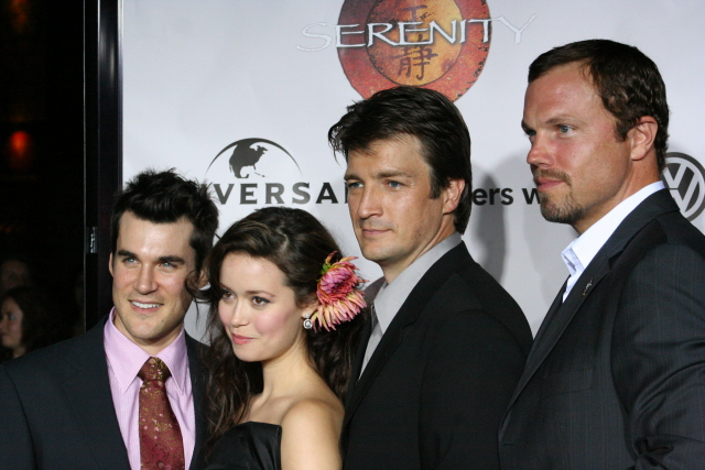 Sean Maher, Summer Glau, Nathan Fillion, and Adam Baldwin